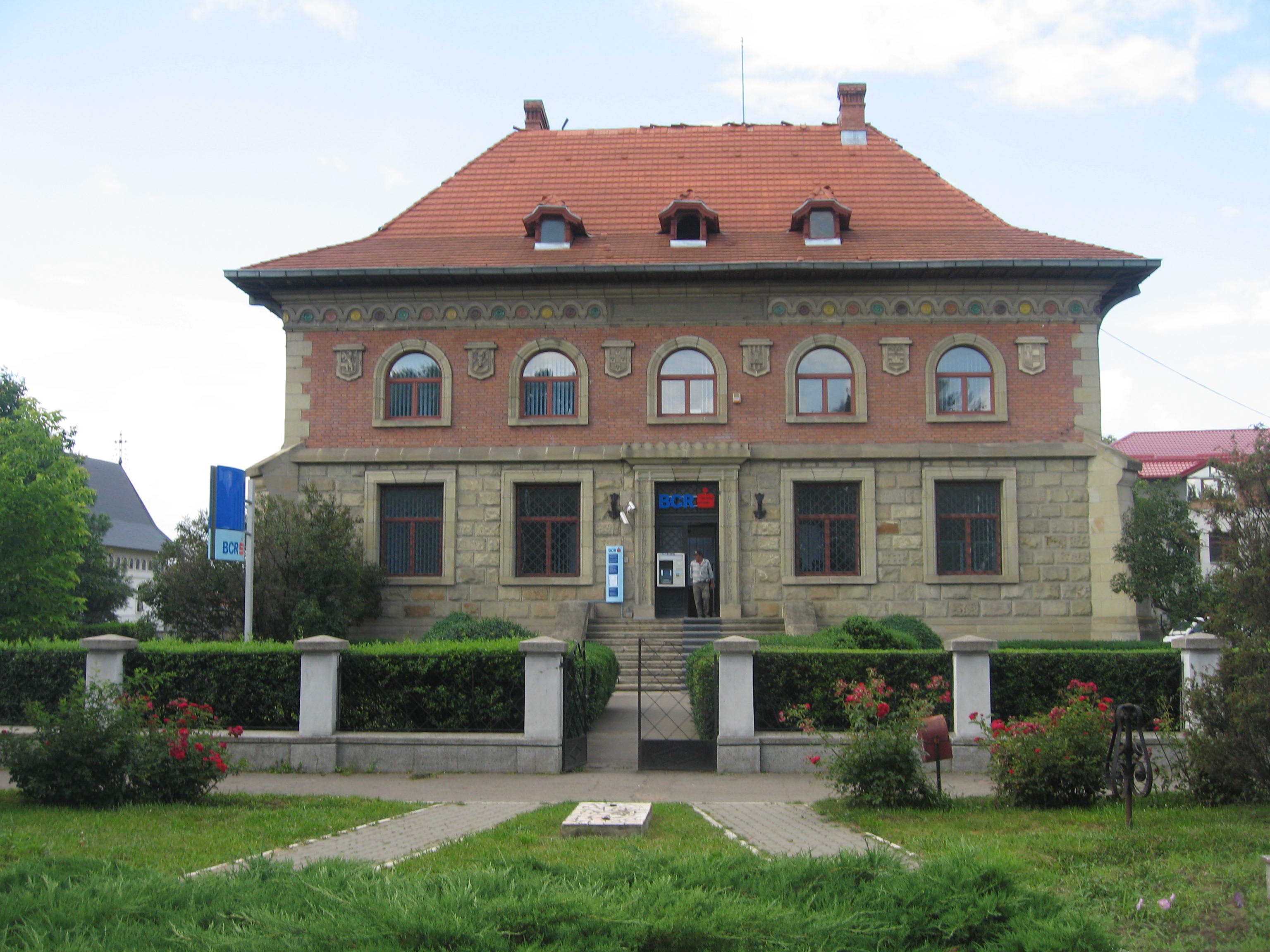 Banca din Rădăuţi